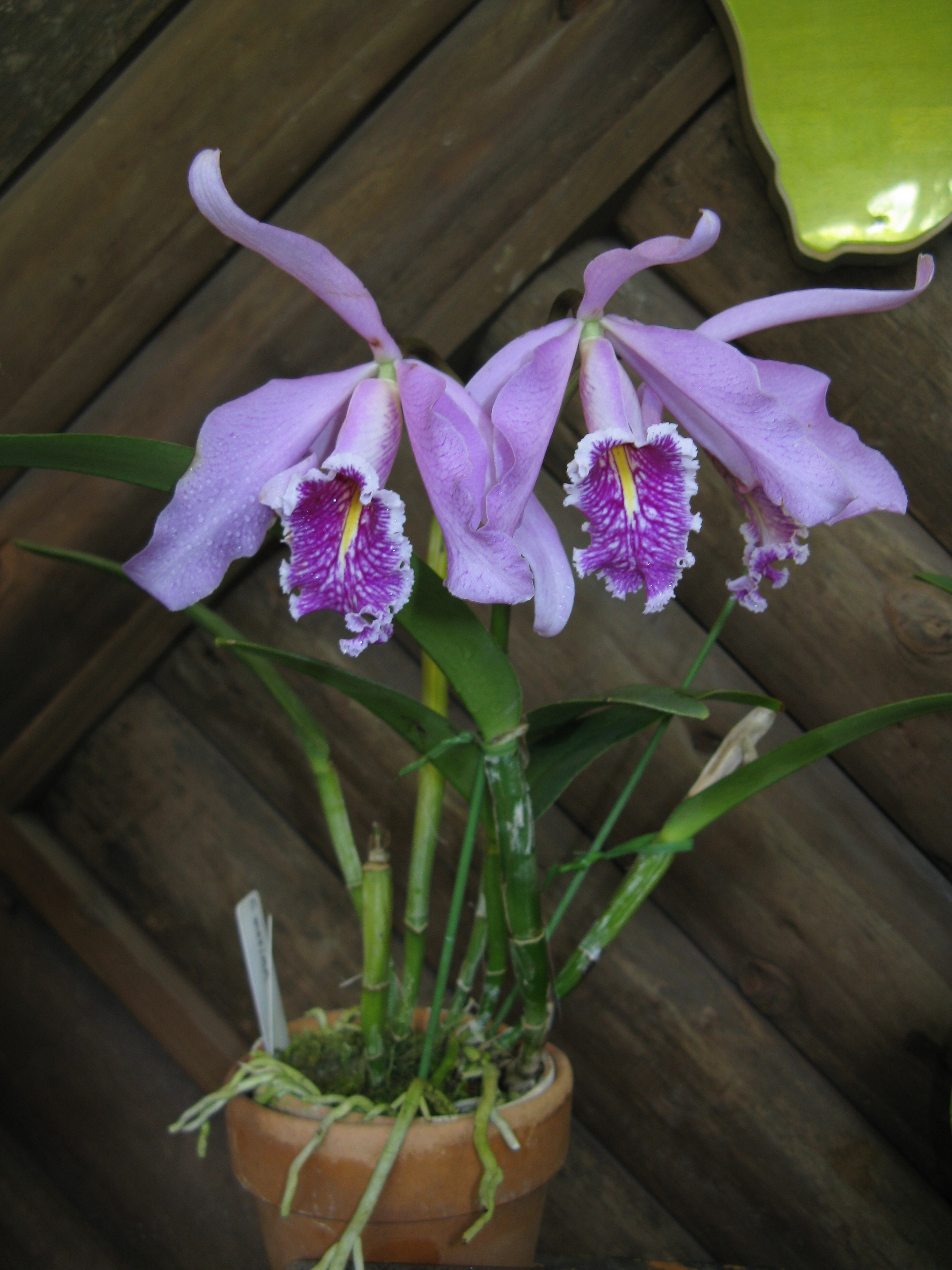 Cattleya maxima Place:Osaka Prefectural Flower Garden,Osaka,Japan